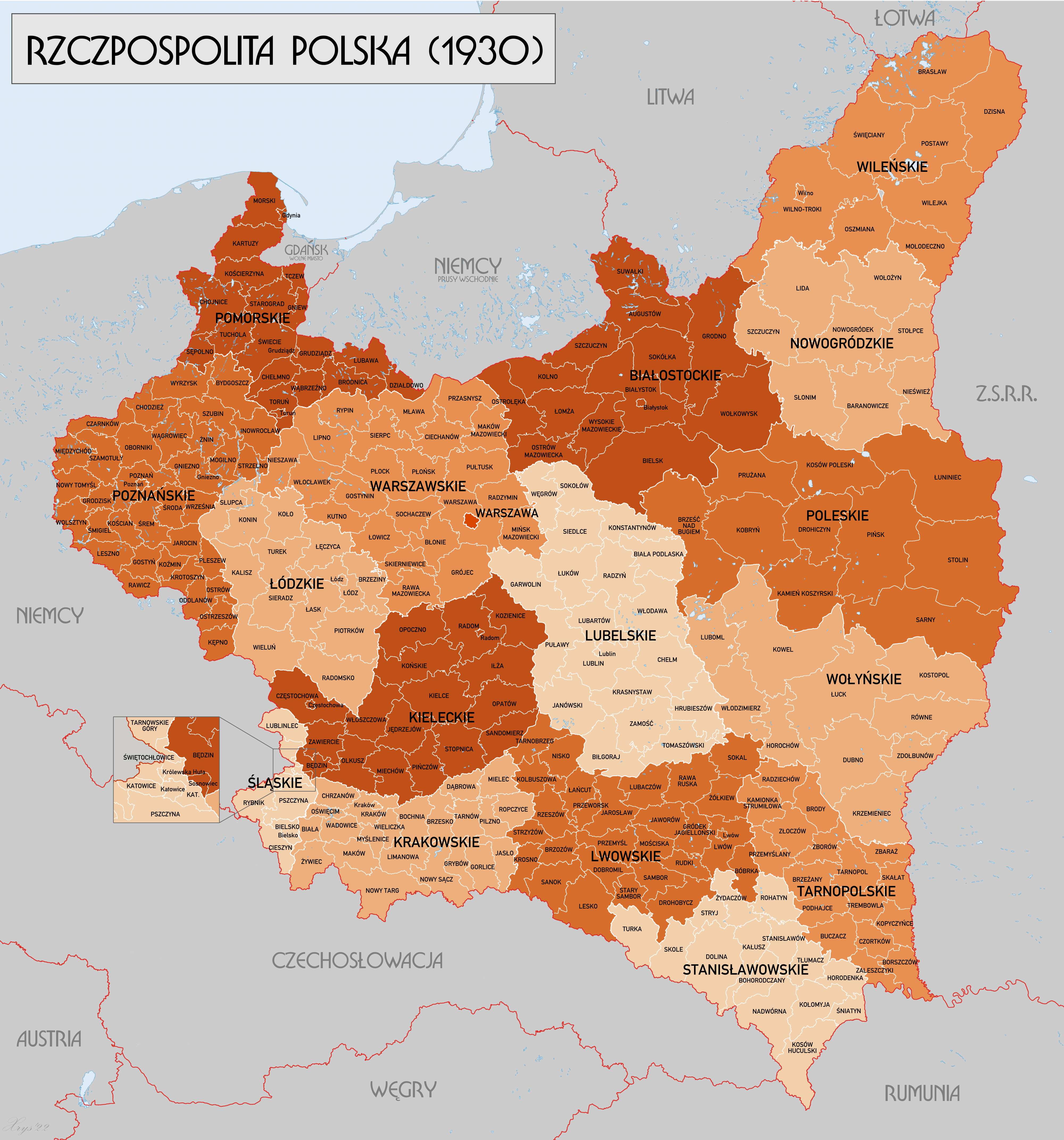 Polish language administrative map of the Polish Republic in 1930 showing Voidvodships and Powiats, Source data: Mapa Administracyjna Rzeczypospolitej Polskiej (300k)